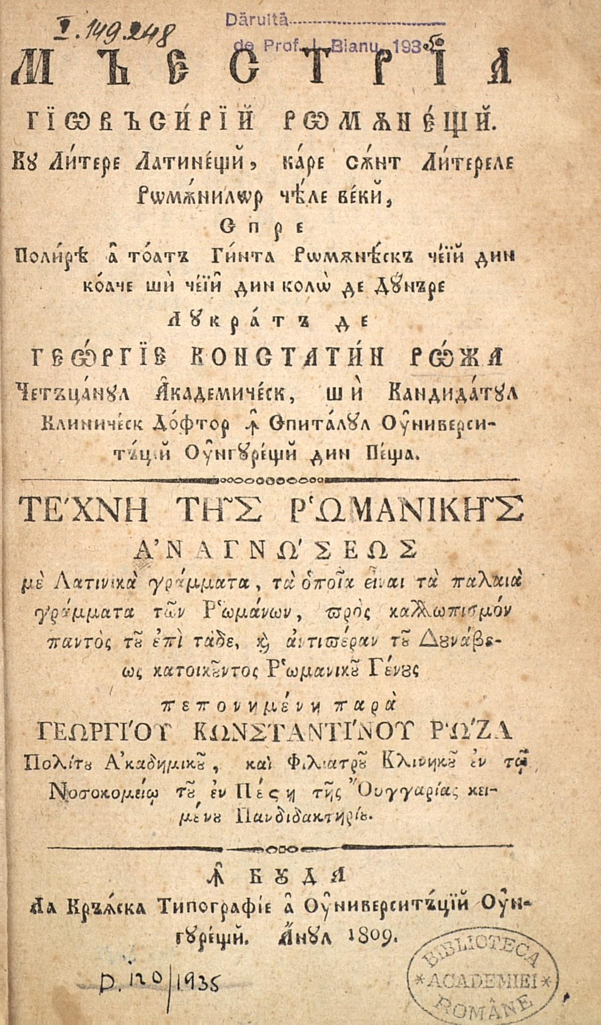 Maiestria Ghiovasirii Romanesti